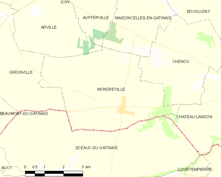 Map of French municipality Mondreville